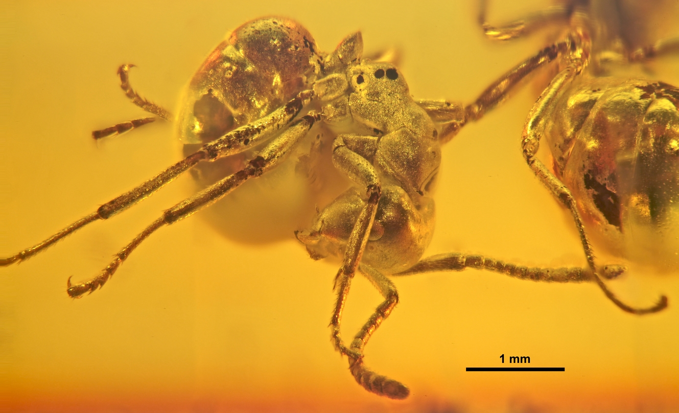 Profile view of an Asymphylomyrmex balticus paratype worker, specimen "GZG-BST05034.